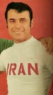 Homayoun Behzadi, Iranian retired footballer